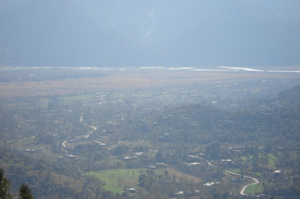 Tatrinote,view from hill side